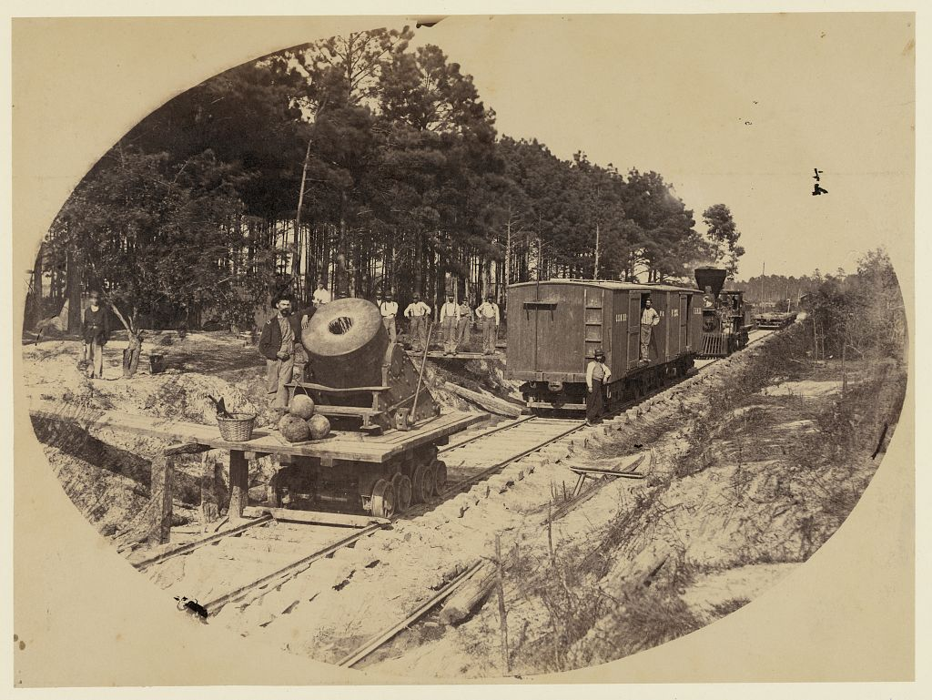 Railroad mortar at Petersburg, Va., July 25, 1864 Photograph shows the mortar used to protect the United States Military Railroad.